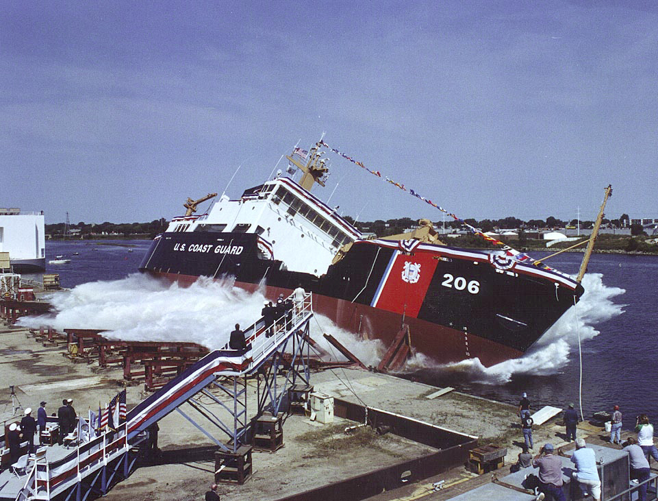 The launch of USCGC SPAR into the Menominee River